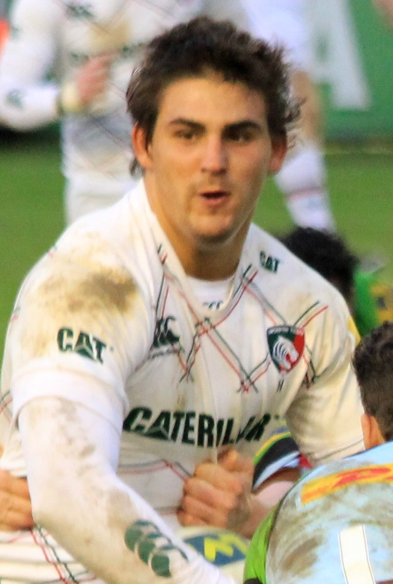 IMG_7559 2013-14 LV Cup Harlequins vs Leicester January 25th, 2014 The Stoop